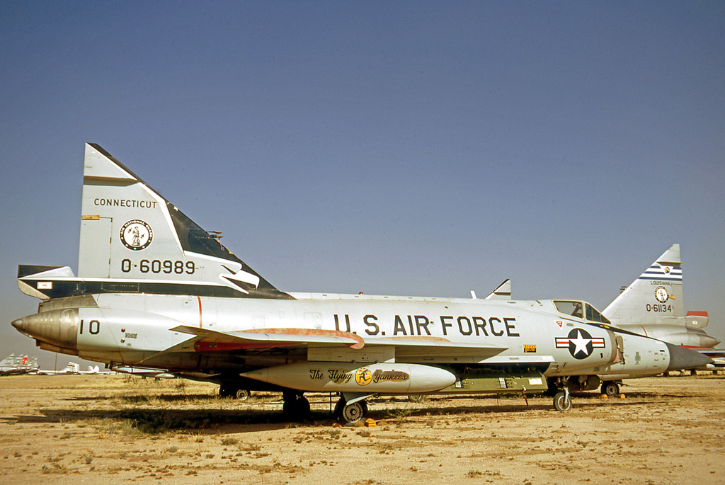 Convair F-102A Delta Dagger 0-60989 of the Connecticut ANG in 1971